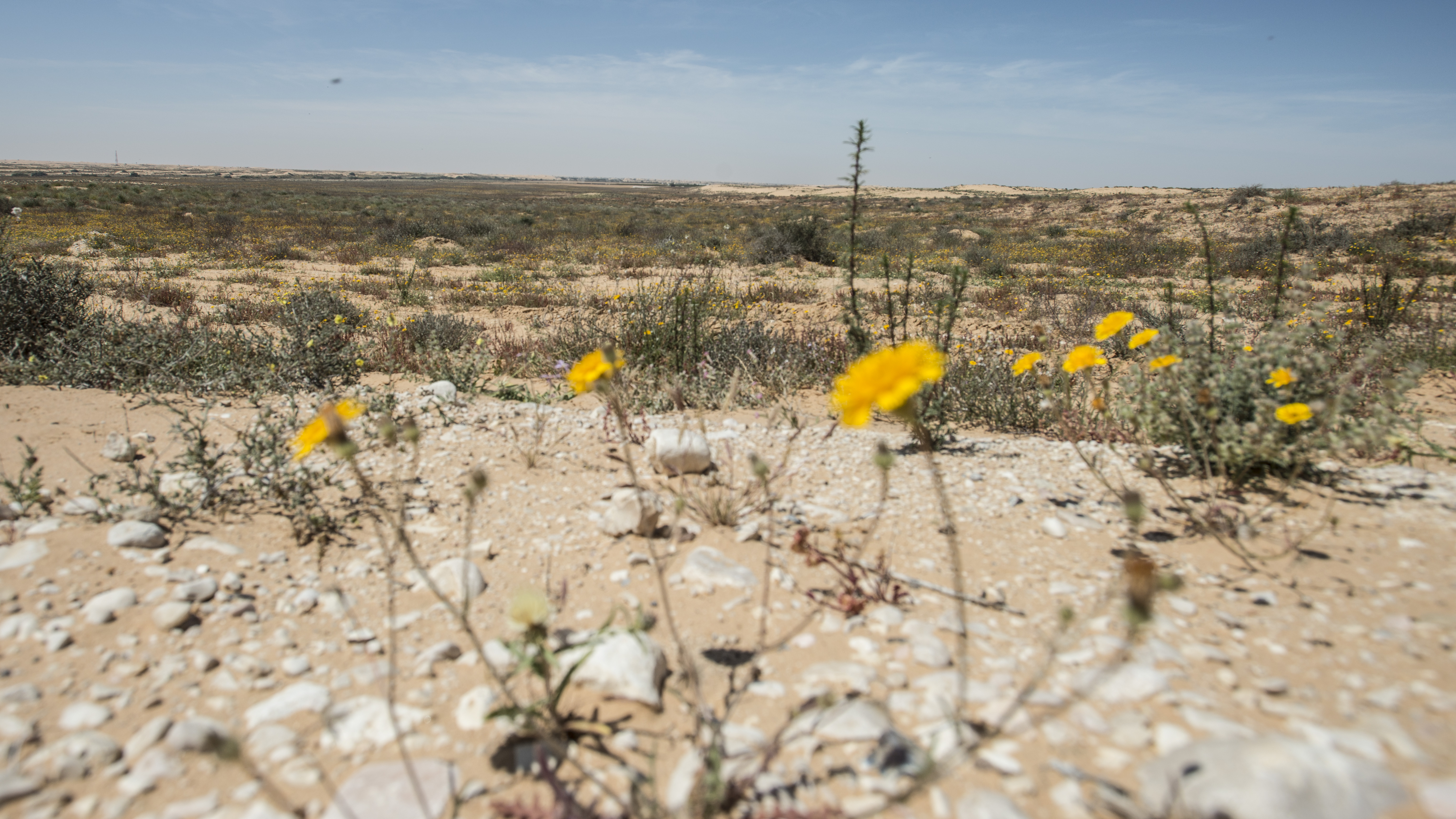 Holot Halutza sand dunes in southern Israel, close to Be'er Milka village, April 2014